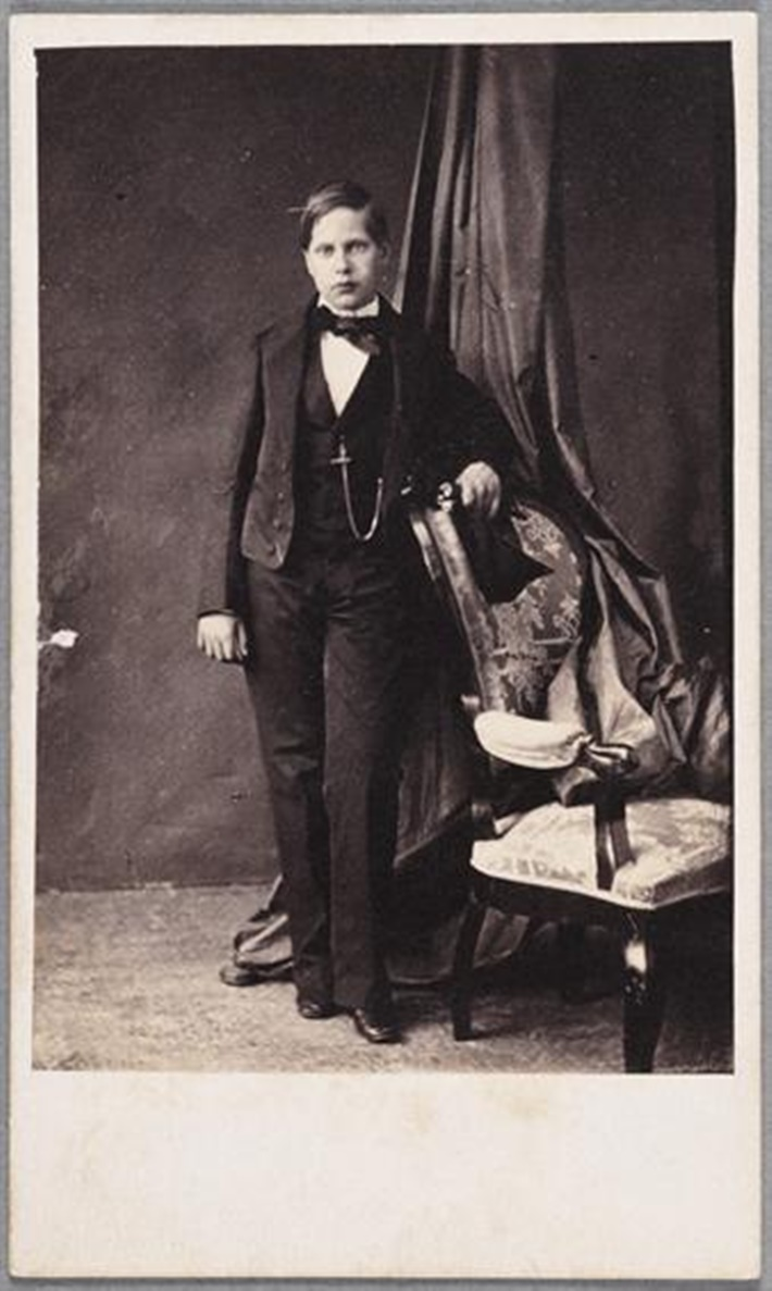 Portrait photograph of Fernando of Braganza, Infante of Portugal, taken in 1856 by Francisco Augusto Gomes.